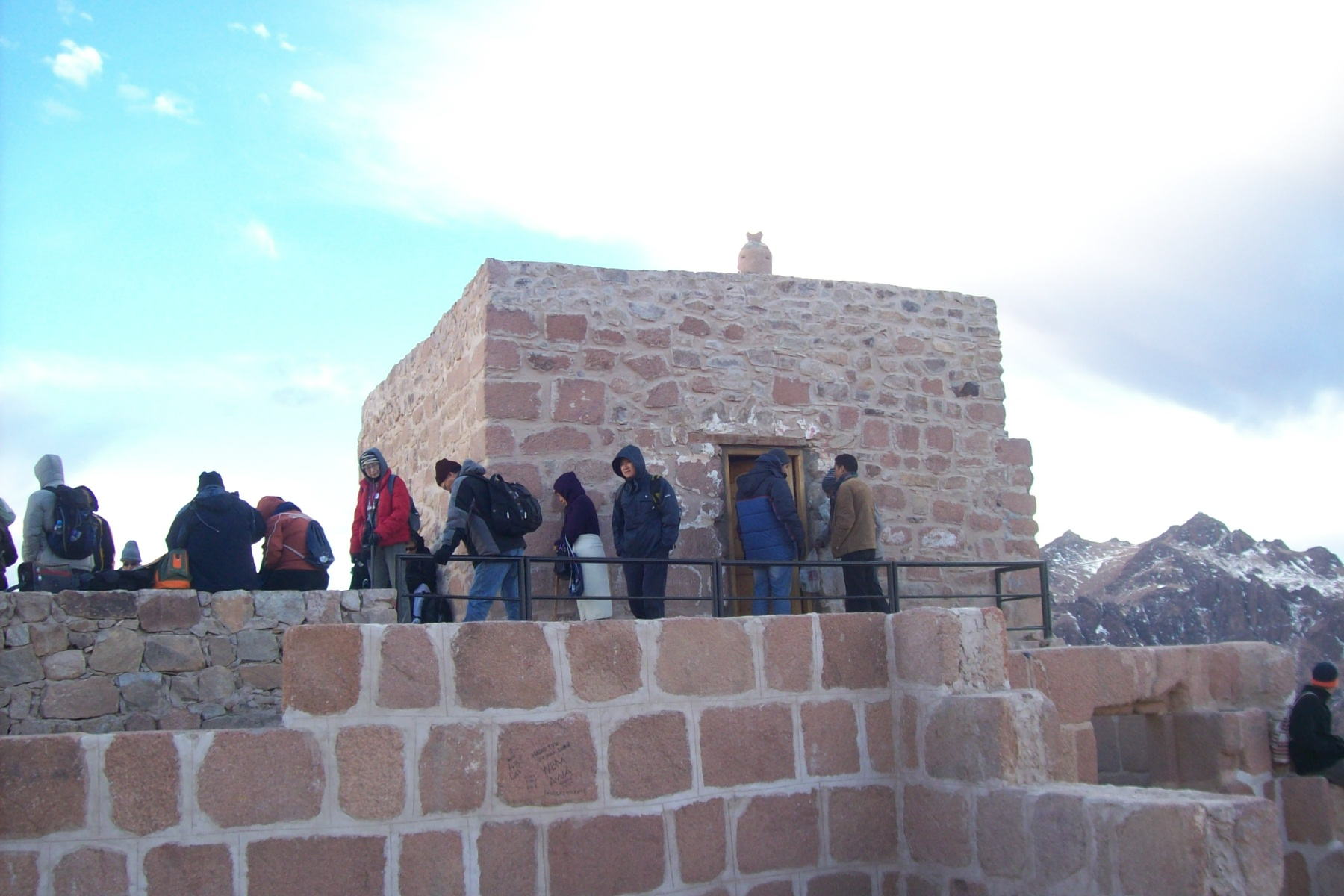 a small mosque built at the top of Mount Sinai, Egypt